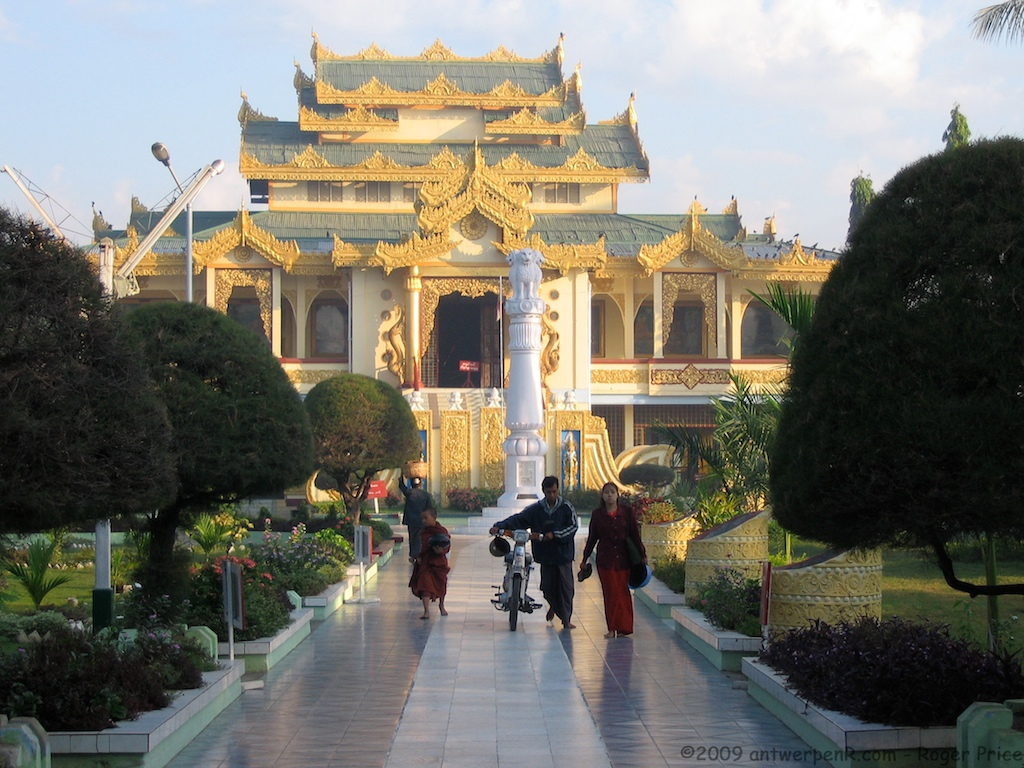 Mahamuni Temple, Mandalay